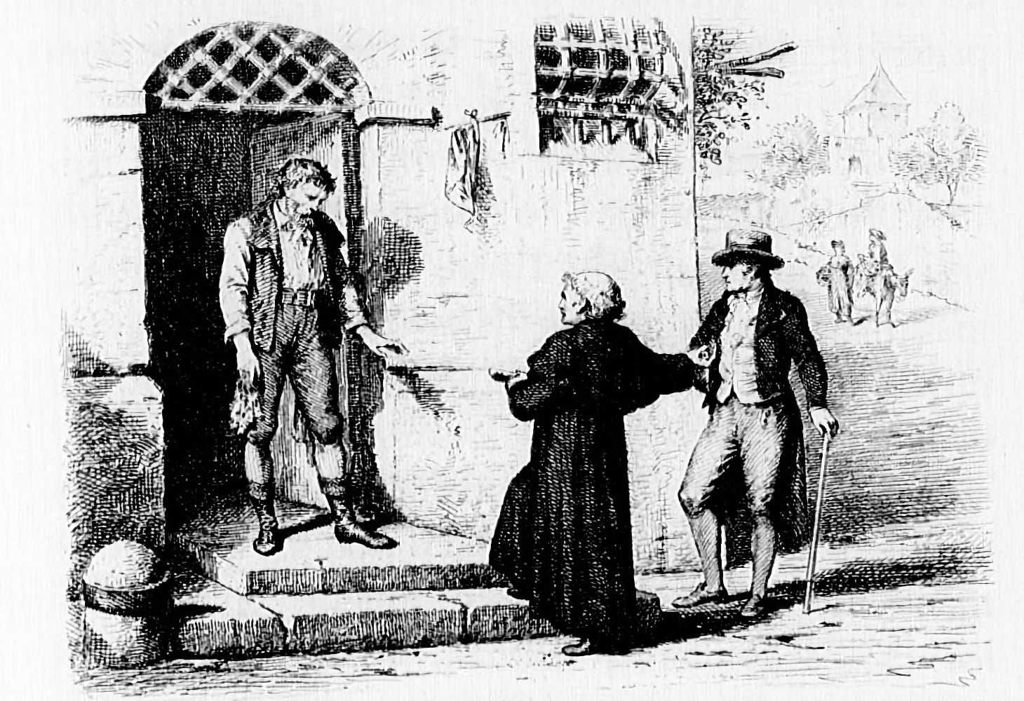 Illustration of The Red and the Black (1830) by Stendhal (1783-1842)